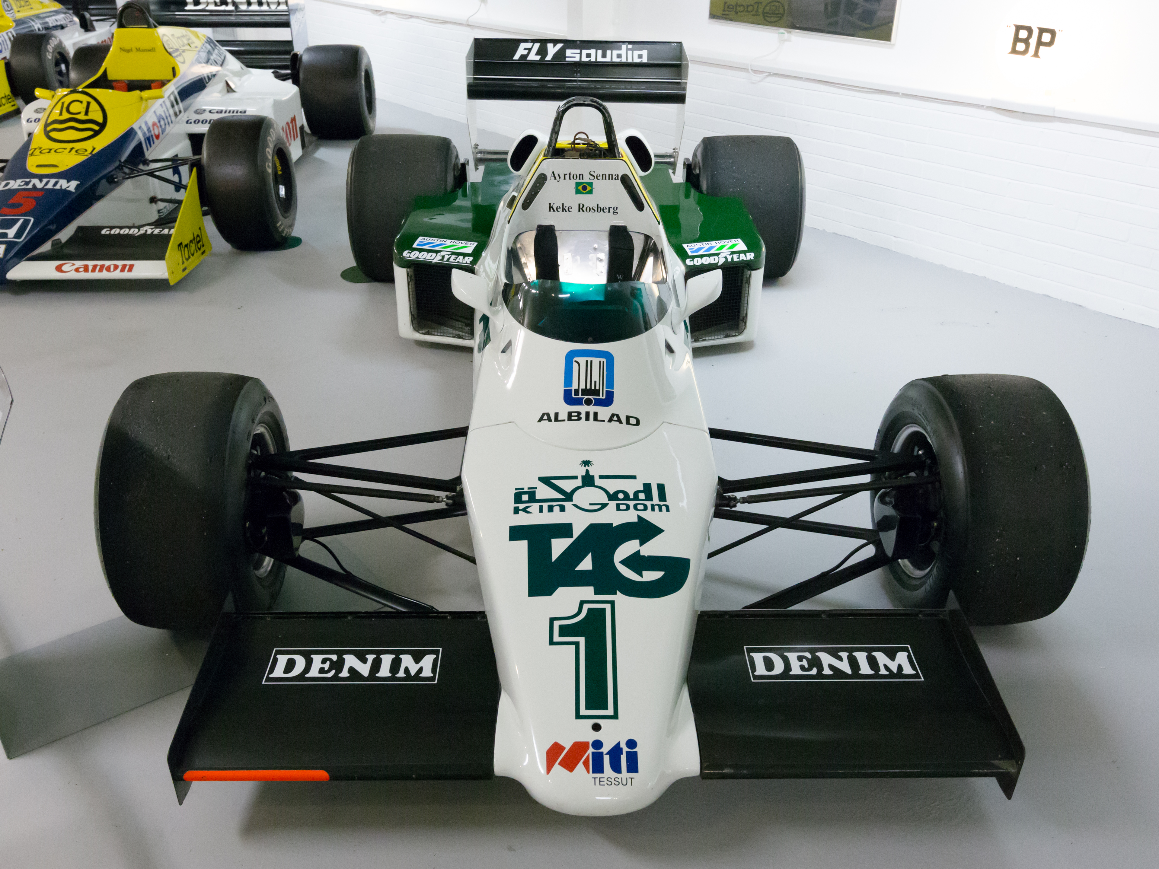 1983 Williams FW08C